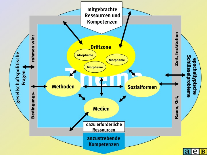 process scheme of the Bern Modell